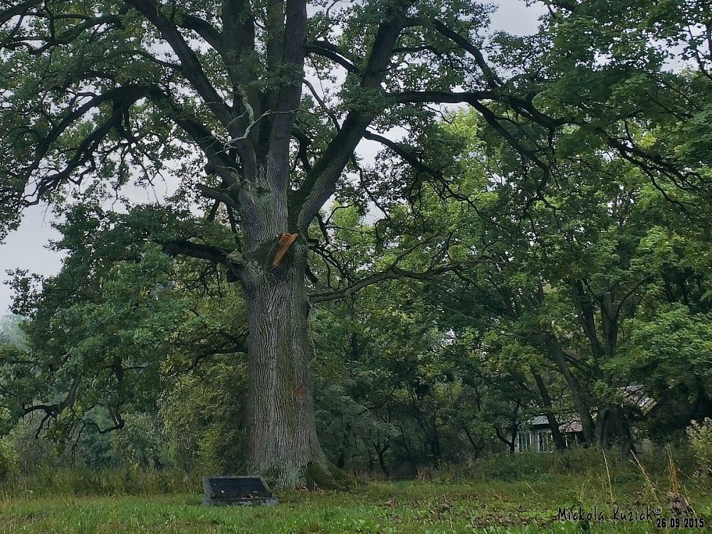 "Dewajtis" oak in Hrushava, Belarus (Maria Rodziewiczówna's manor)